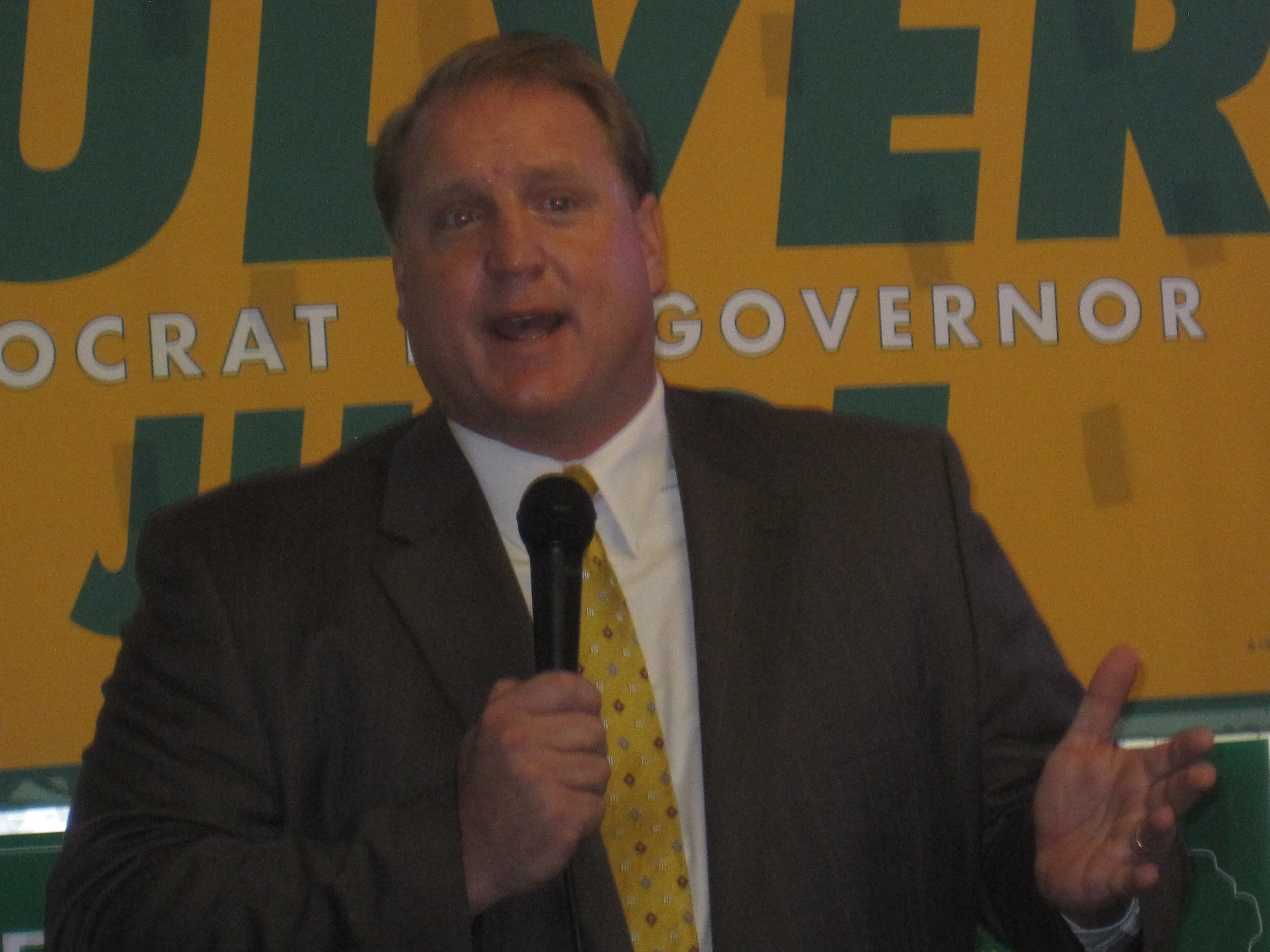 Culver, retention rallies 094